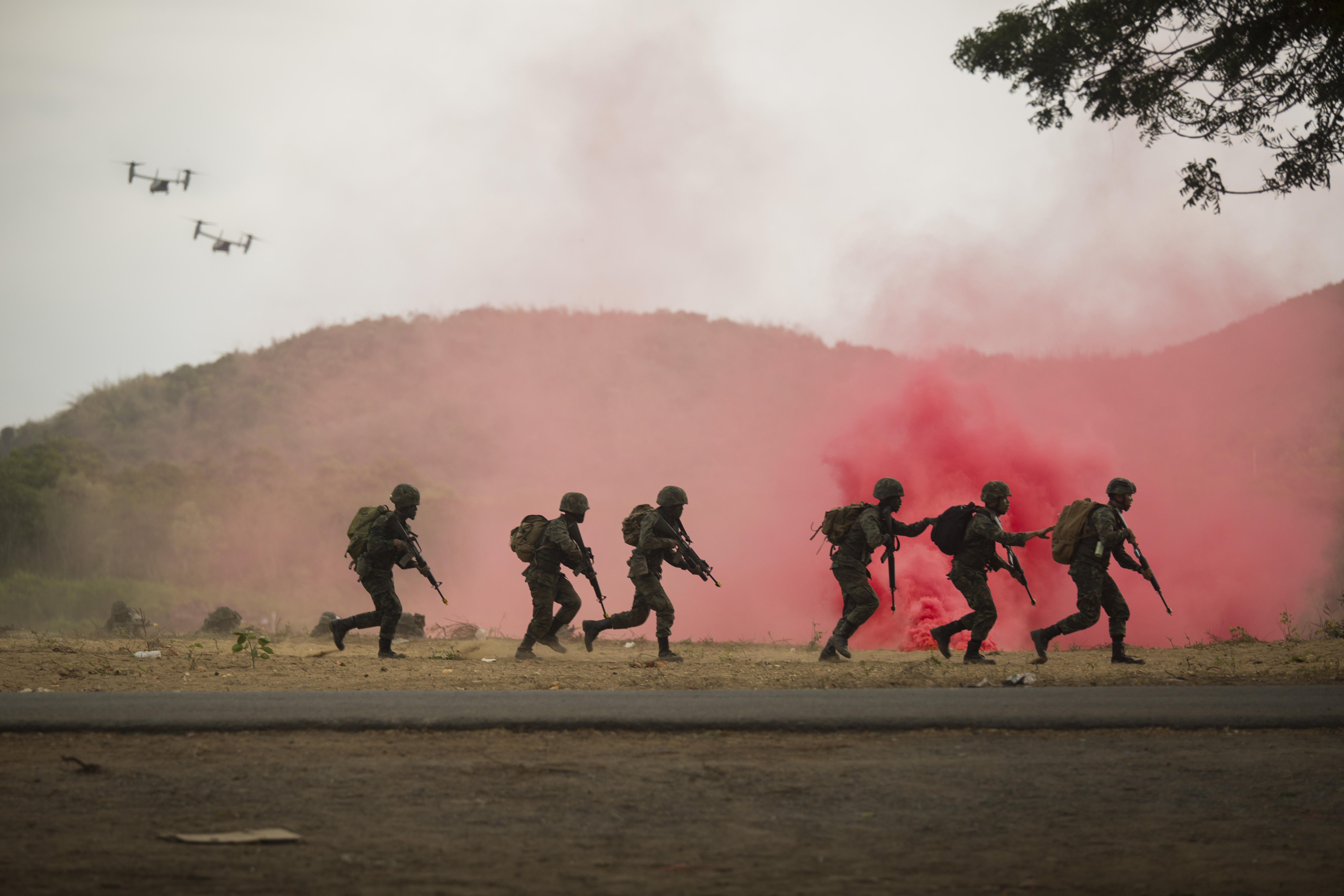 Royal Thai Marines maneuver through a military operations on urban terrain complex as U.S. Marine Corps MV-22B Osprey tilt-rotor aircraft fly overhead during an amphibious beach landing as part of exercise Cobra Gold 2020 at Hat Yao Beach, Sattahip, Kingdom of Thailand, Feb. 28, 2020. Exercise Cobra Gold 20, in its 39th iteration, is designed to advance regional security and ensure effective responses to regional crises by bringing together multinational forces to address shared goals and security commitments in the Indo-Pacific region. (U.S. Marine Corps photo by Staff Sgt. Jordan E. Gilbert)